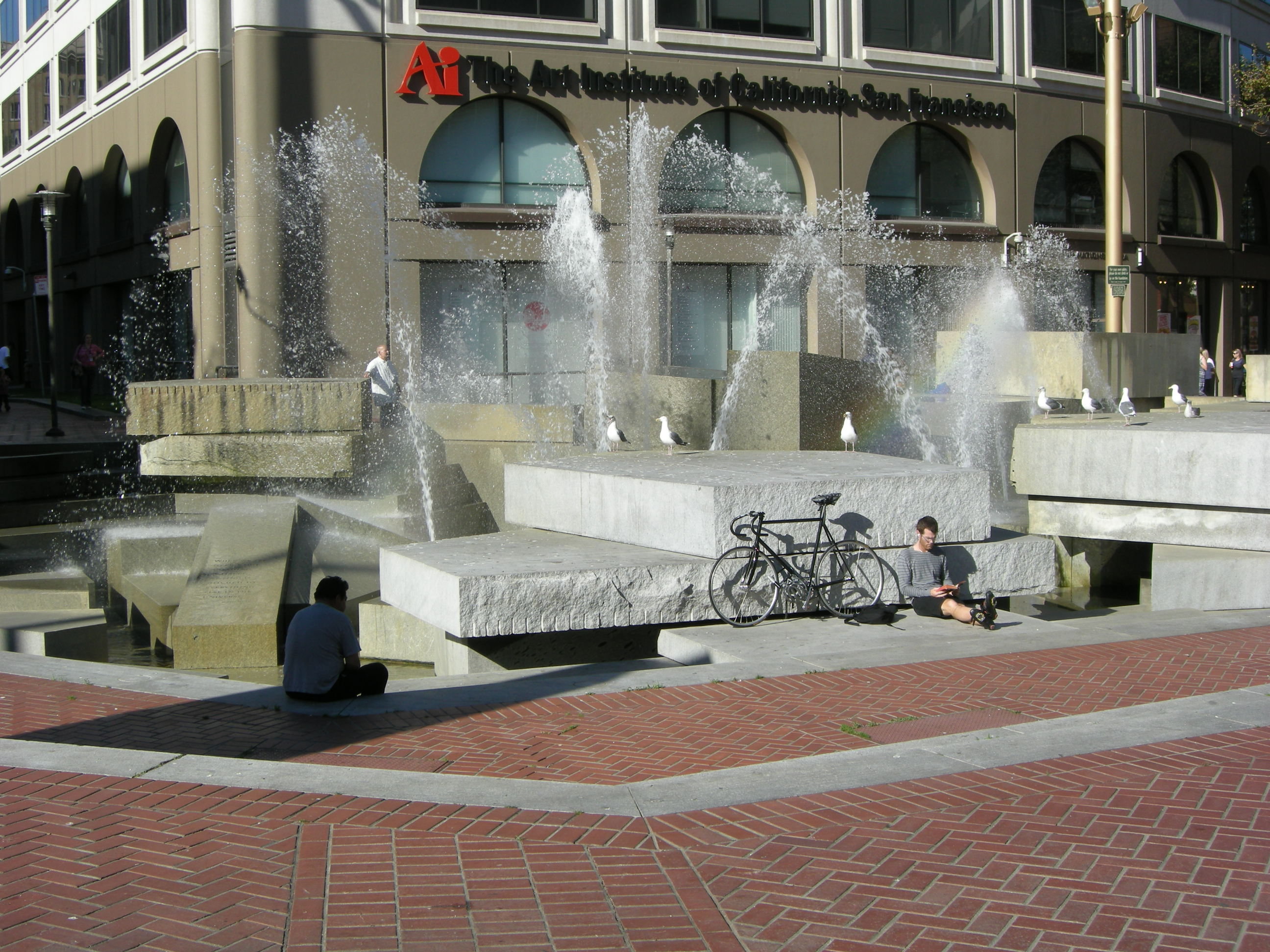 Fountain at United Nations Plaza — Civic Center, downtown San Francisco. Designed by Lawrence Halprin.